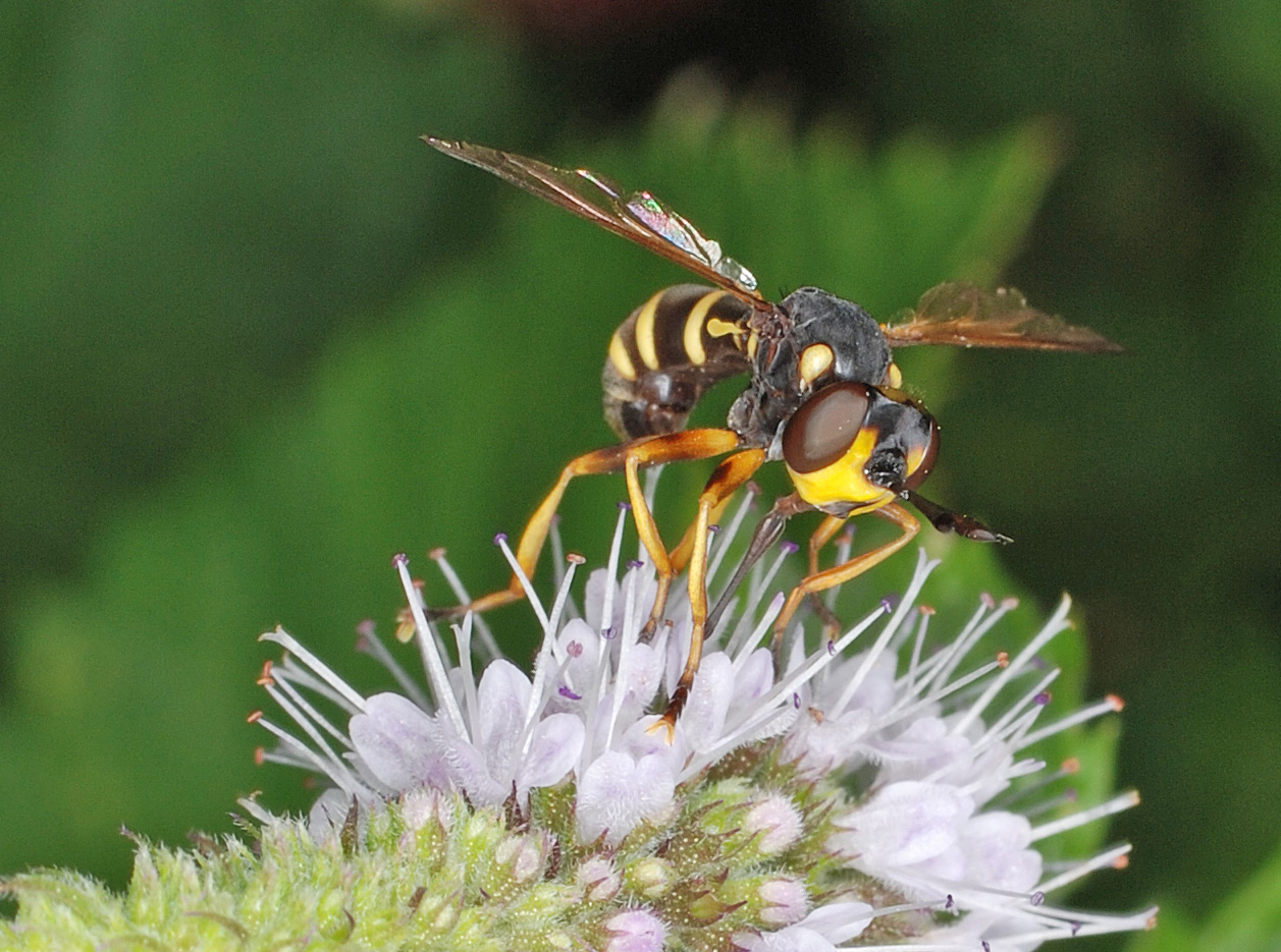 Conops sp., Thick-headed fly (Stuttgart, Germany; thanks to User:kulac for help with the identification), It's Conops ceriaeformis (look at the black spots on the legs)